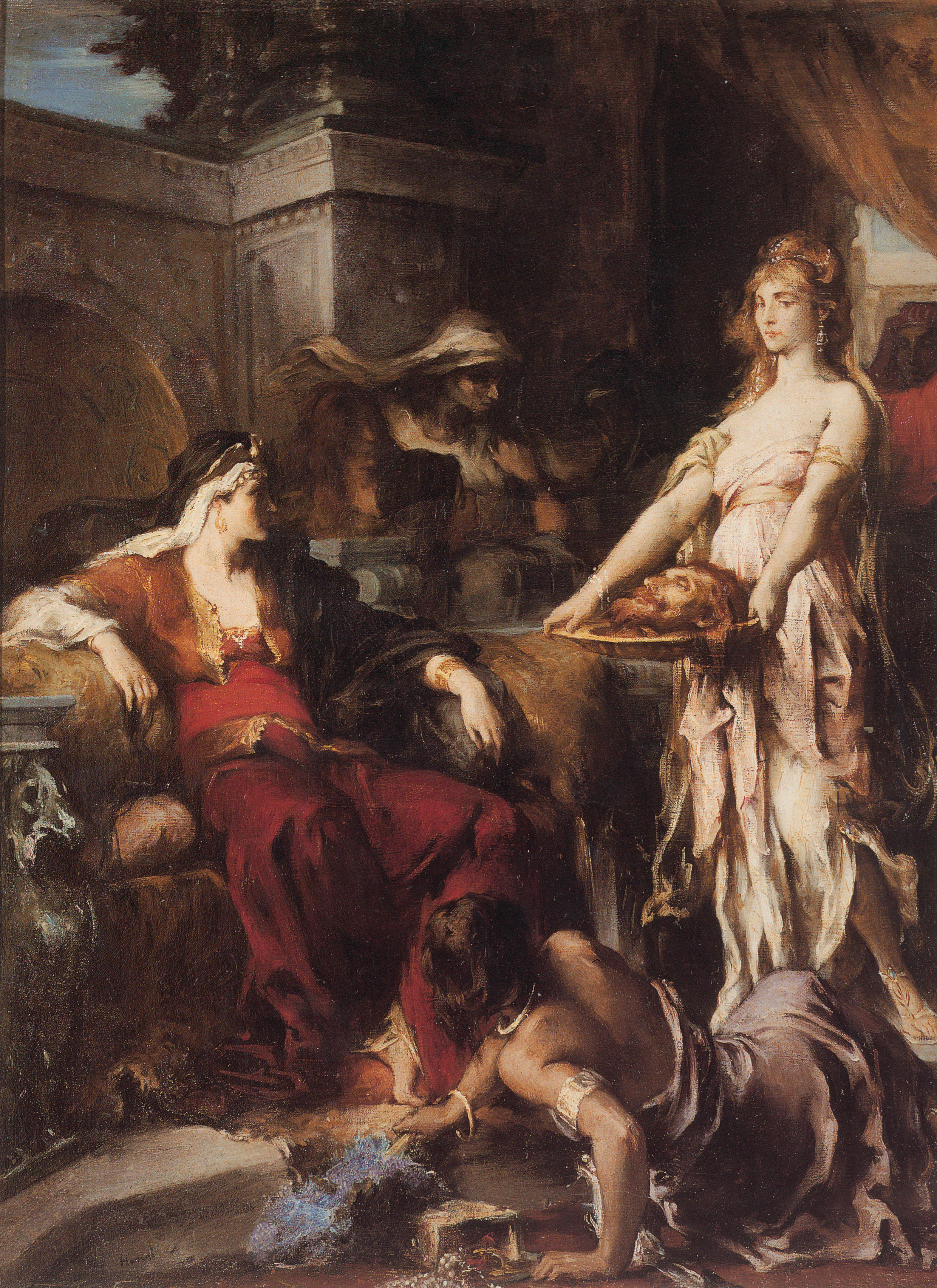 Herodias